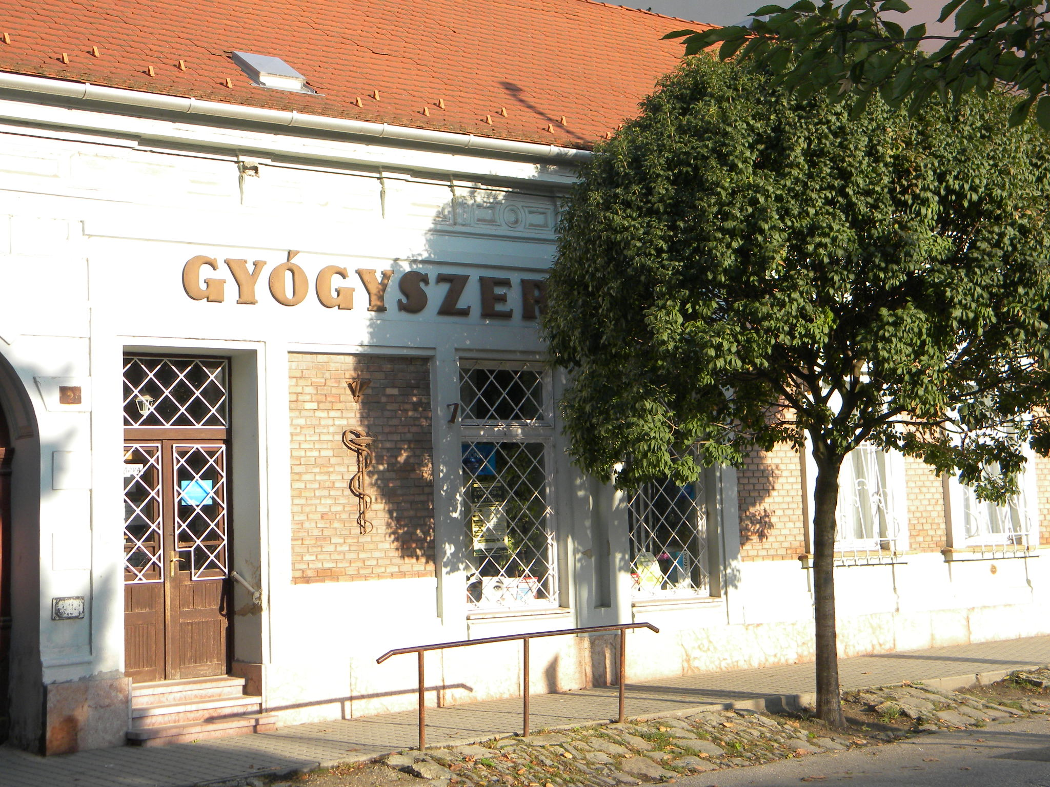 Location: Hungary, Tata This is a photo of a monument in Hungary, Identifier: 4544